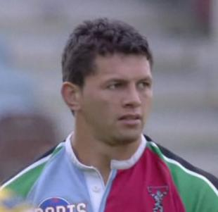 Henry Paul kicking at goal against the Leeds Rhinos